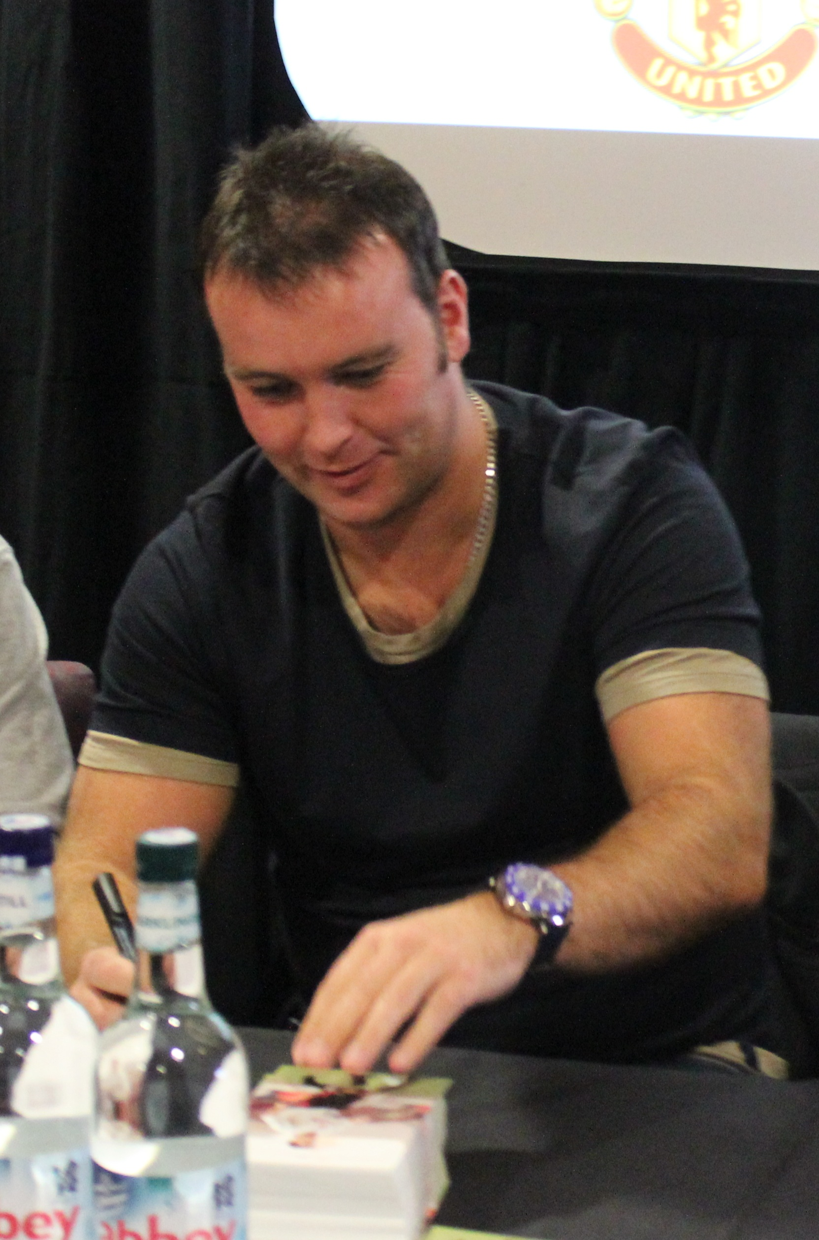 Ben Thornley, former Manchester United player